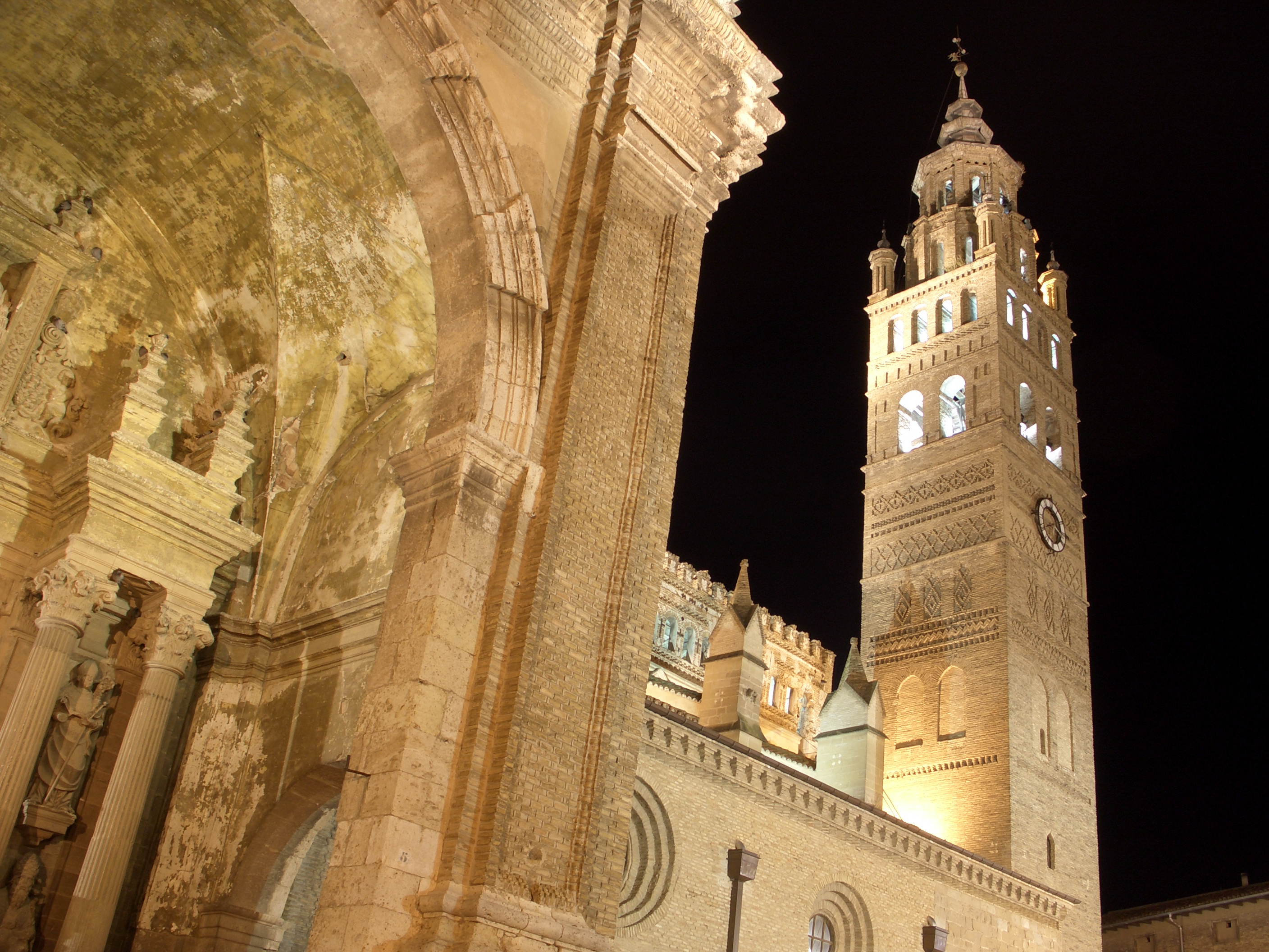 Tarassona - Catedral